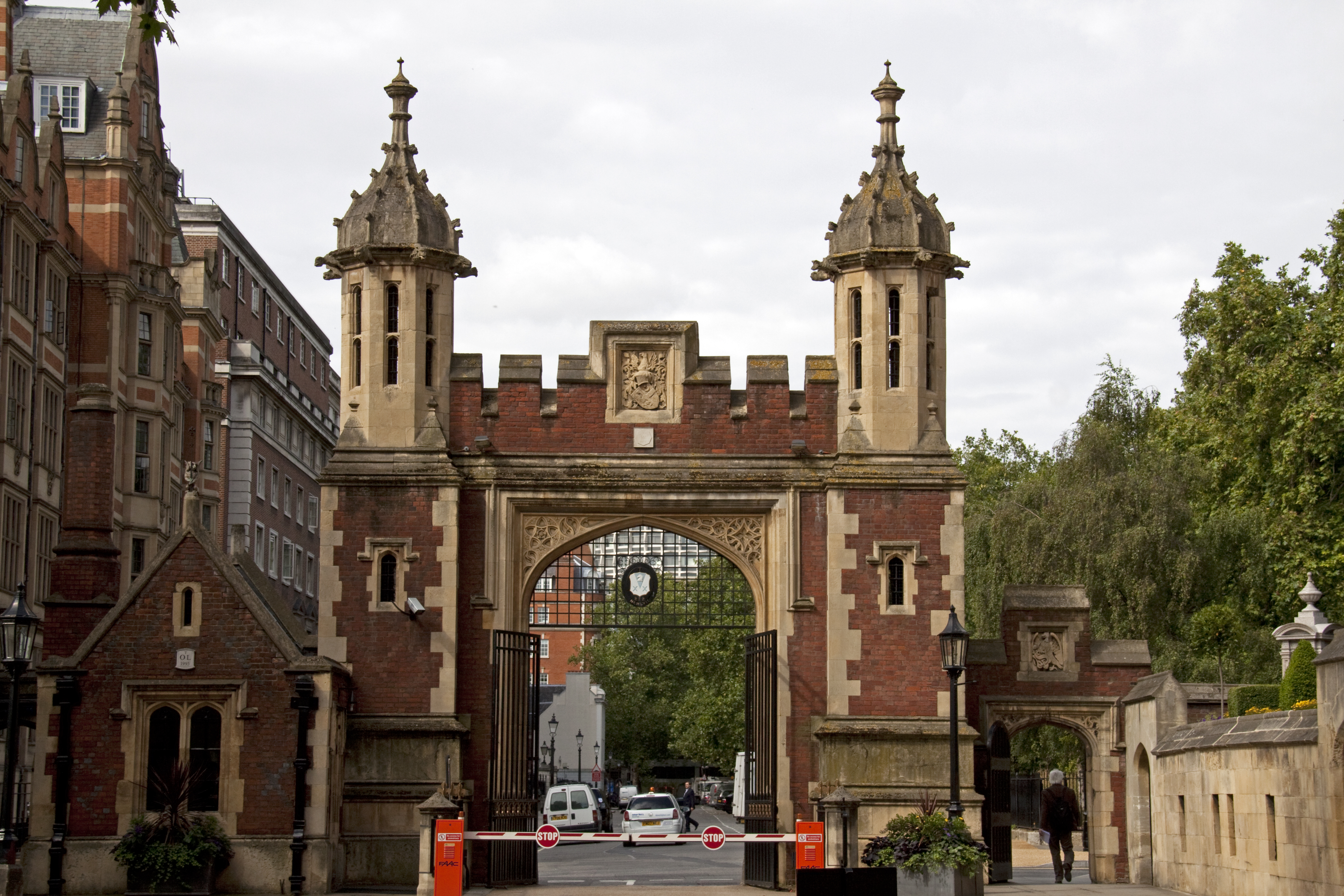 Newman's Row Entrance. This view of Lincoln's Inn was used as an inspiration for a set of Witness for the Prosecution (1957 film).